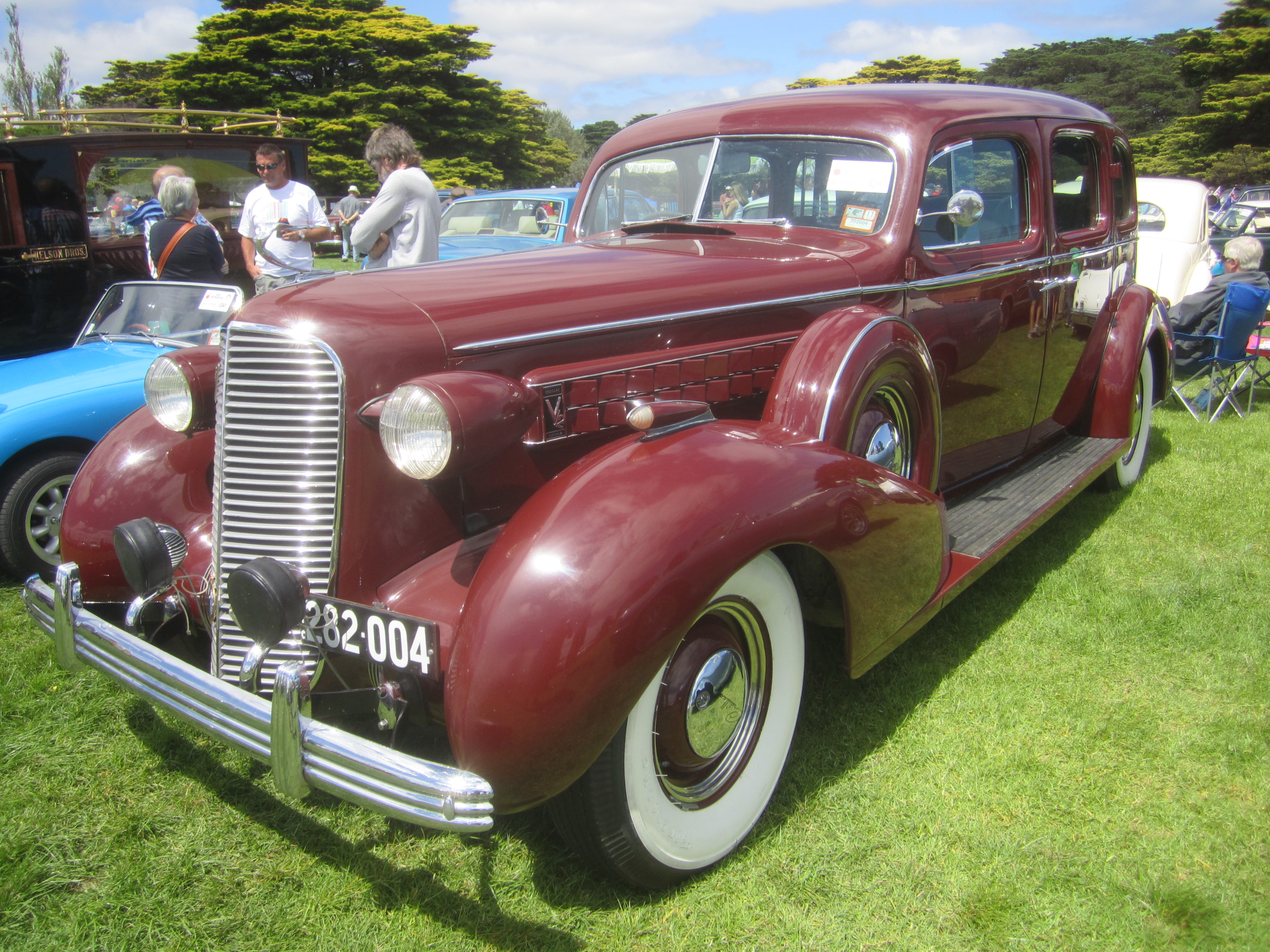 The V12 was only available in a Cadillac from 1931-37, it was a well built, powerful, top of the line car. Originally called the Series 370 from 1931-35 (370A,B,C,D and E) and then the Series 80 or longer wheelbase Series 85 from 1936-37. The even more expensive V16 was very similar but a 4inch longer hood. The new, and more reliable V8 was introduced in 1937, so the V12 was dropped (the V16 continued on until 1940) Engine; 368 cu in V12. Also available; 346 cu in V8 Series 70 and 452 cu in V16 Series 90